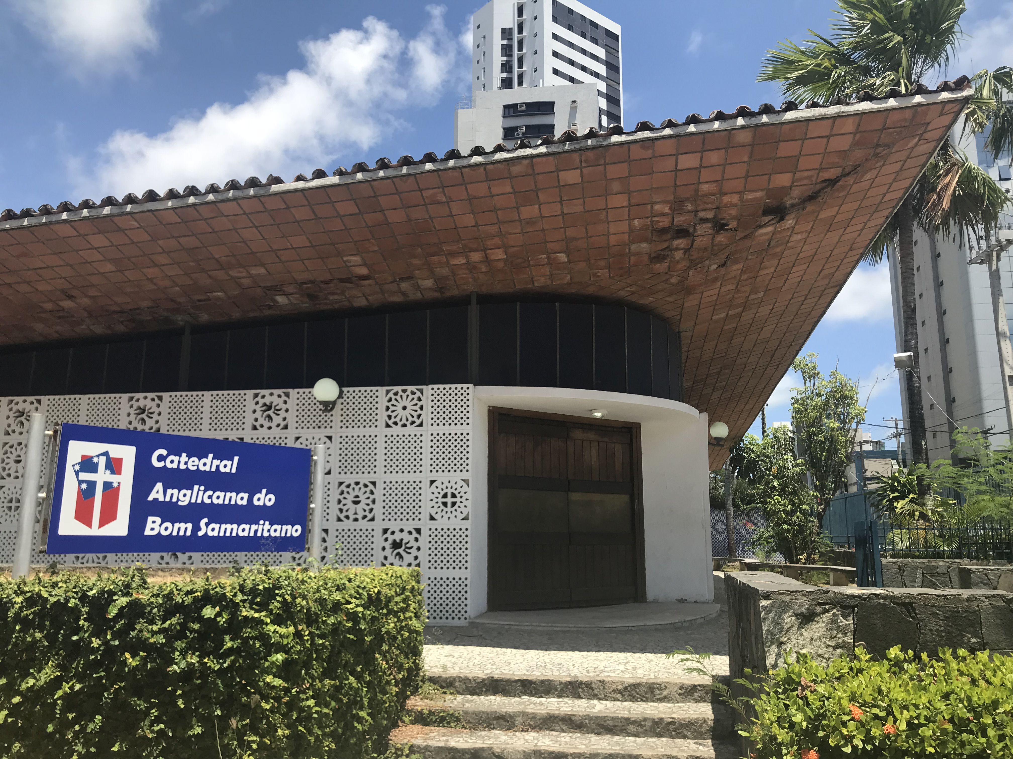 The Cathedral Church of Good Samaritan, of Anglican Diocese of Recife